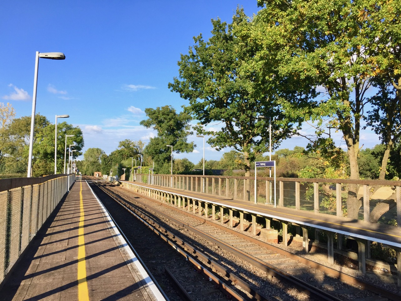 View of Beltring Station looking towards Yalding, 11 October 2016